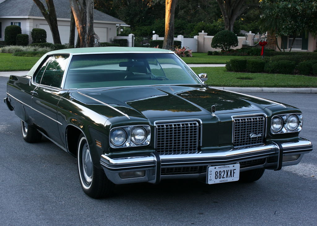 1974 Oldsmobile 98 LS Coupe